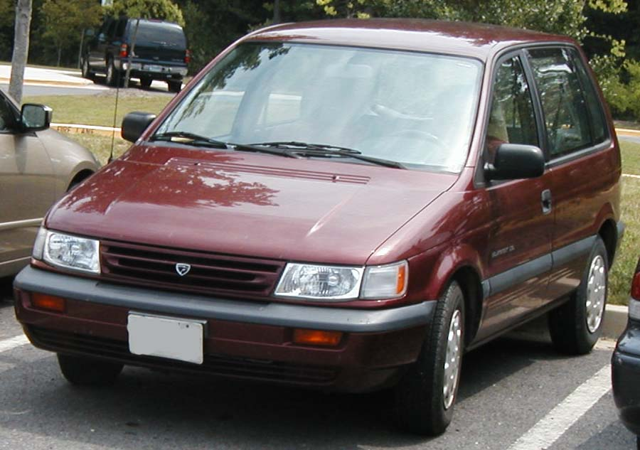 Eagle Summit wagon photographed in USA.